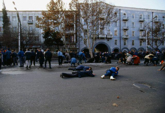 A demonstration in Tbilisi, Georgia in favor of besieged President Zviad Gamsakhurdia (1990-1992) is being forcefully dispersed by agents of the opposition Military Council during the 91-92 Tbilisi War. 4 dead and 38 injured would result from the protest.